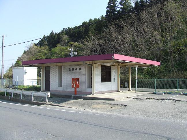 Kakeyama Station building